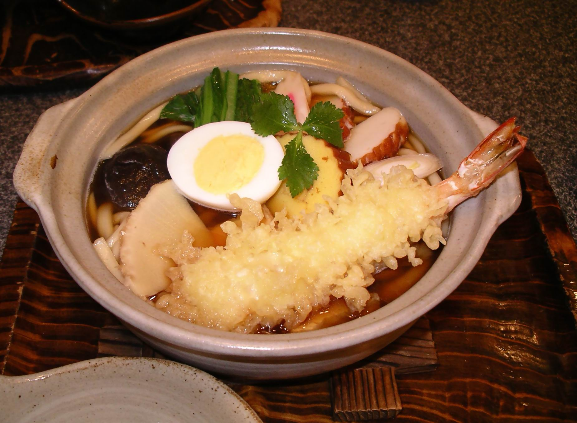 Nabeyaki udon (udon noodles cooked in a hotpot) at a local restaurant. Toppings include tempura shrimp, negi, kamaboko, naruto, datemaki, spinach, boiled egg, shiitake and bamboo shoot.Comlete description here: Blue Lotus鍋焼きうどん